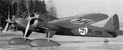 British Blenheim I bomber. In 1930